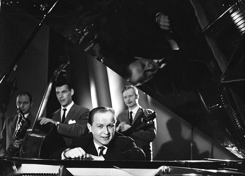 Publicity photograph of the Finnish musician/composer Jaakko Salo (1930–2002) and his orchestra. From left to right: Seppo Rannikko, Erkki Seppä, Jaakko Salo, Raimo Sarkio.